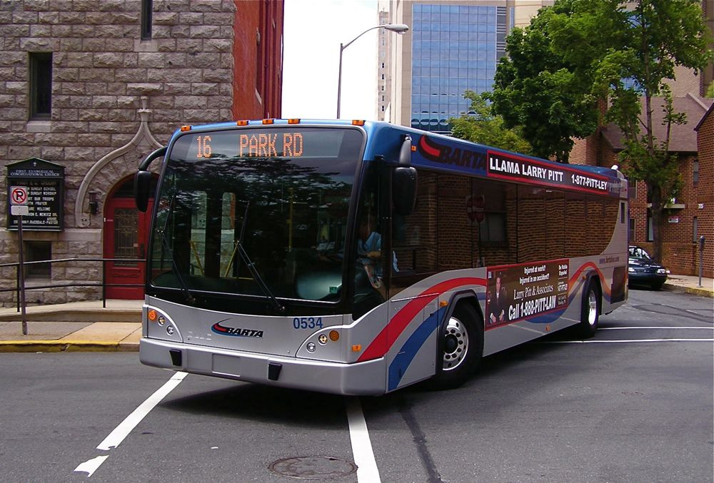 BARTA Gillig BRT bus #0534 in downtown Reading, Pennsylvania.